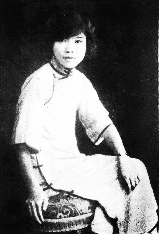 Liu Manqing (Liu Man-ch'ing) (1906 - 1941)